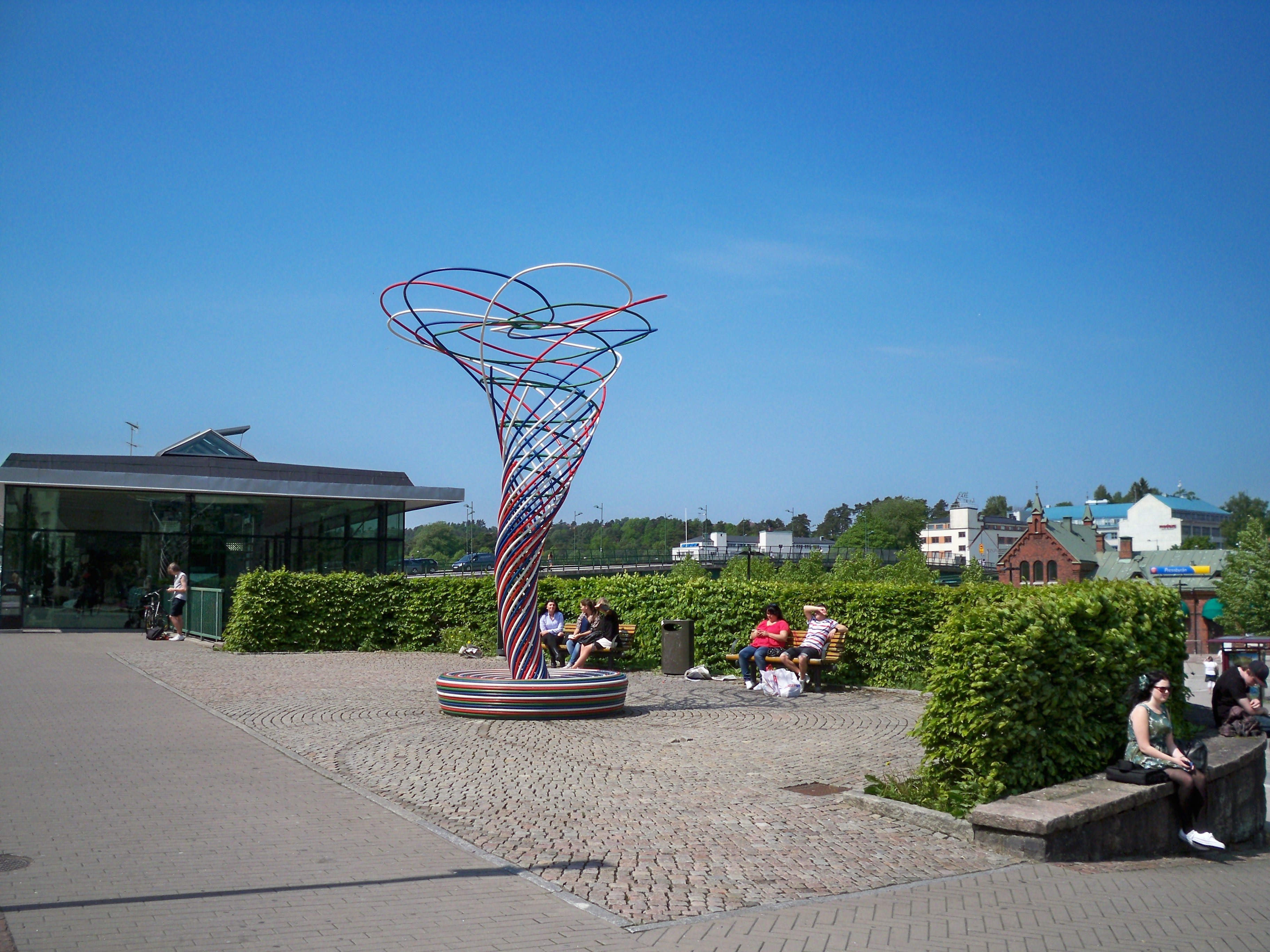 The sculpture Tornado Touch Down (2008) was made in honor of the textile industry center in Sweden, namely Borås, by the Swedish "artist group" Bigert & Bergström.